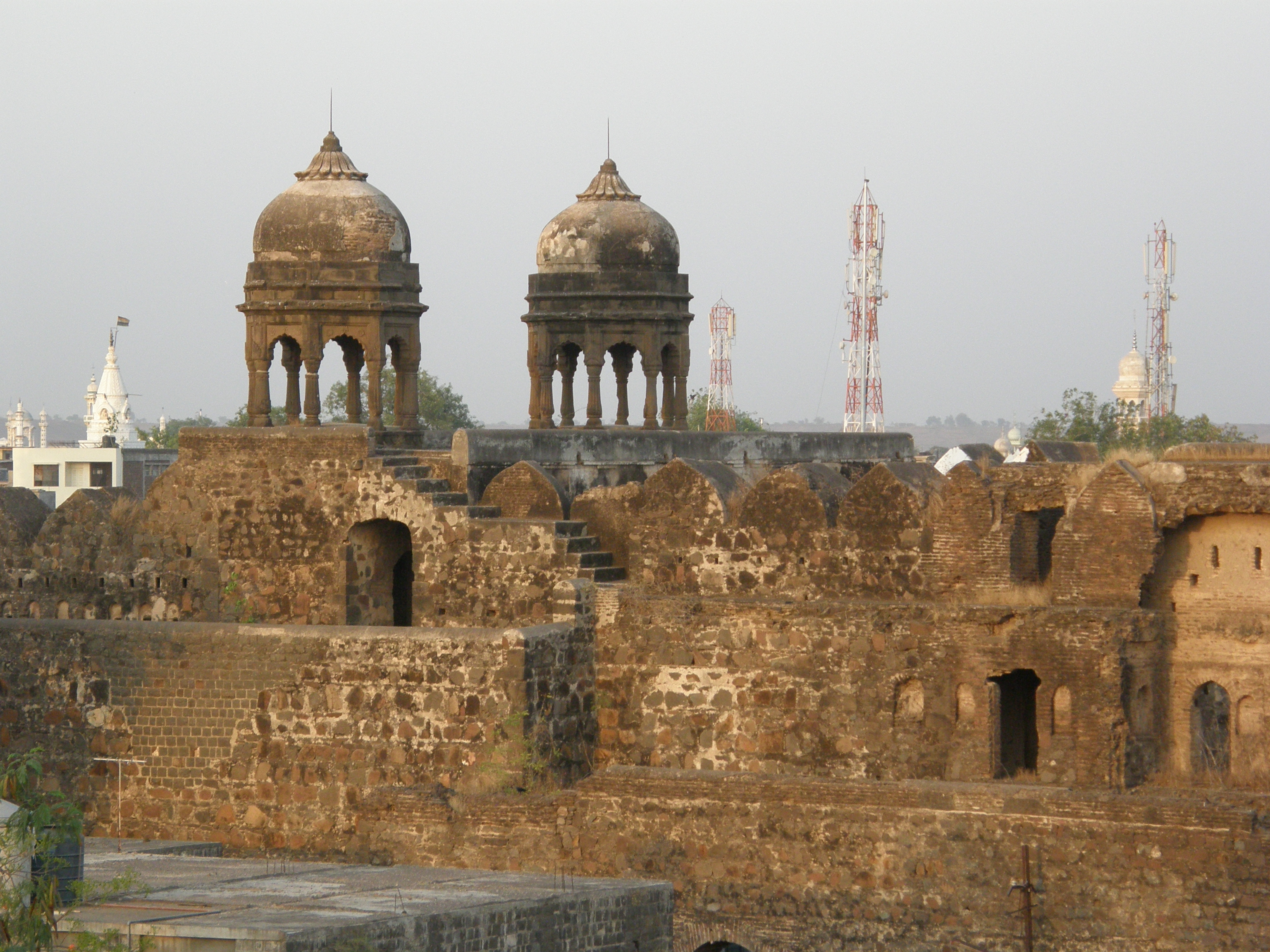 Religious Integrity (Temple & Mosque) in Malegaon City